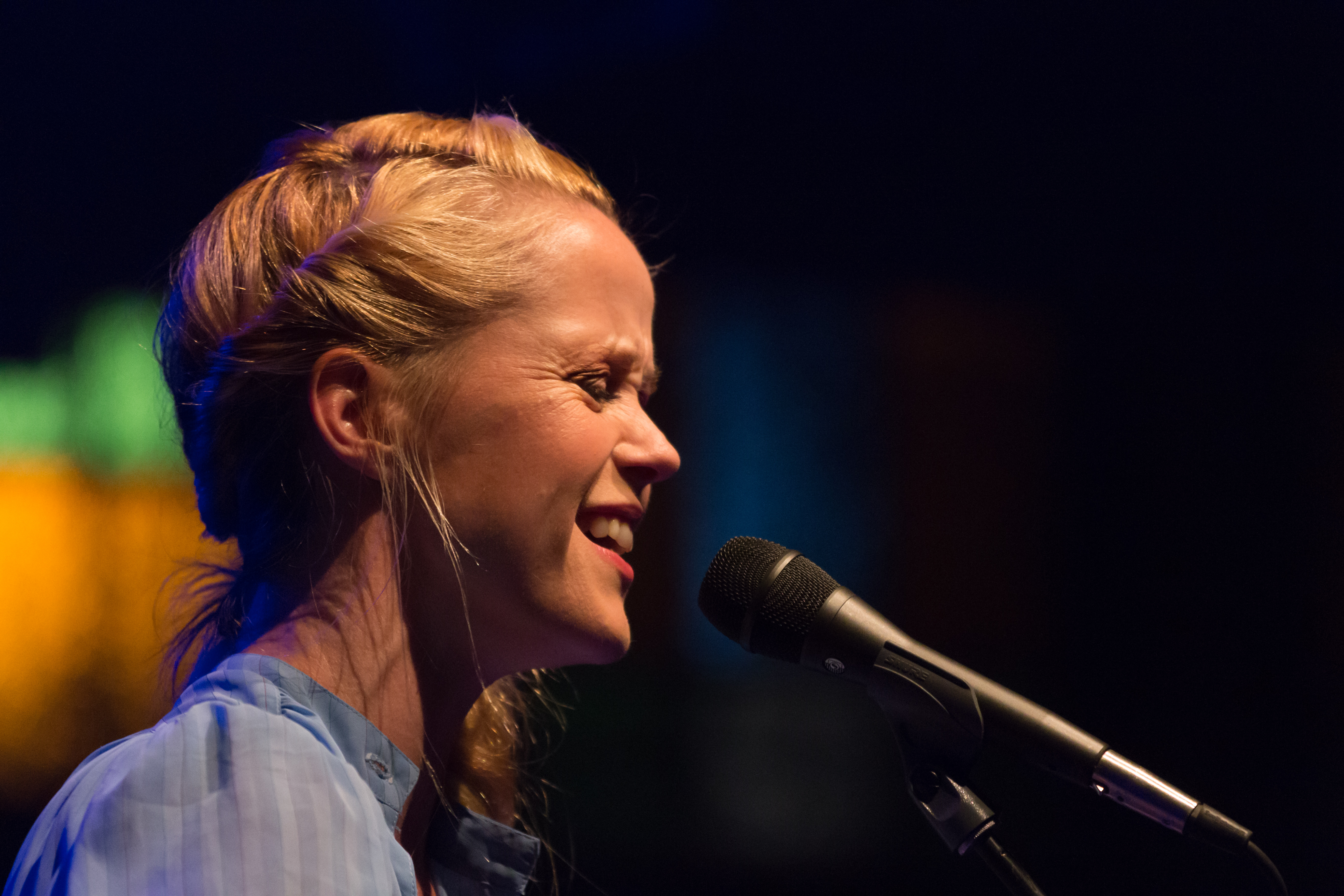 Tina Dico performing at the ZMF Freiburg on July 2nd, 2015.